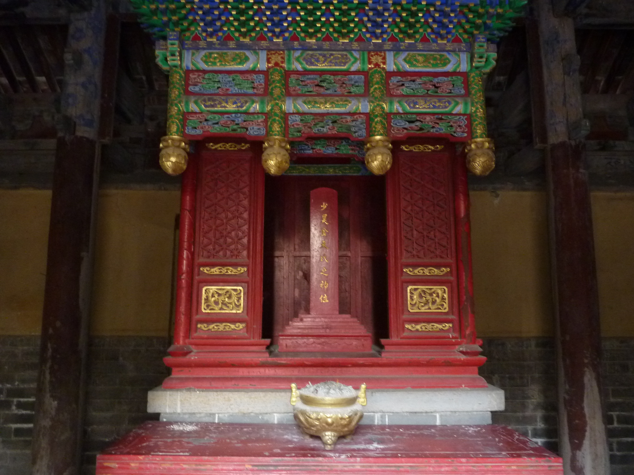 Shaohao Tomb site, east of Qufu. From the south to the north, includes a gate. a temple, a stone-faced pyramid, and an earth tumulus with the stele that says "Shaohao Ling" (Shaohao's Tomb) in front of it.